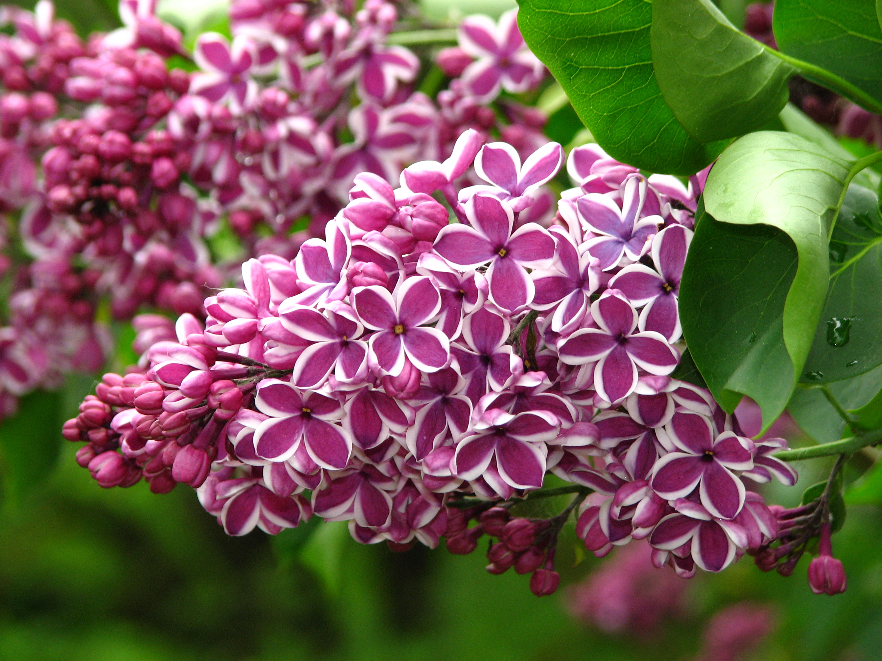 Syringa vulgaris 'Sensation'. From the collection of the Botanical Garden of Moscow State University (main area on the Sparrow Hills).